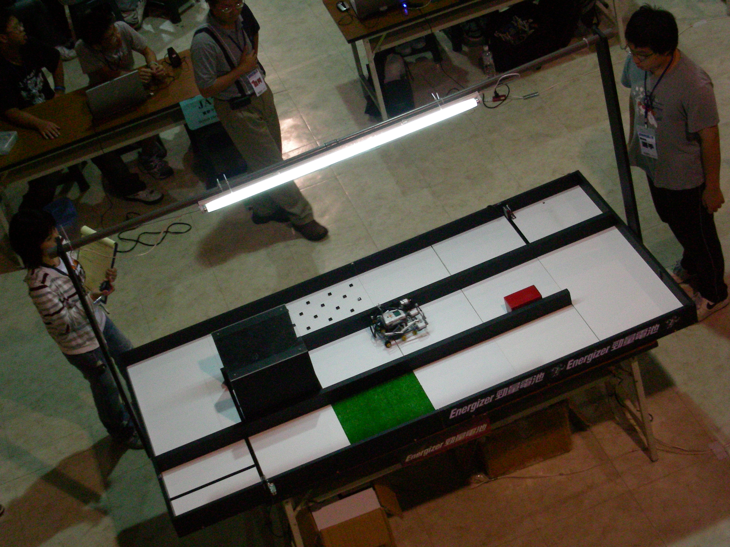 World Robot Olympiad Taiwan heat